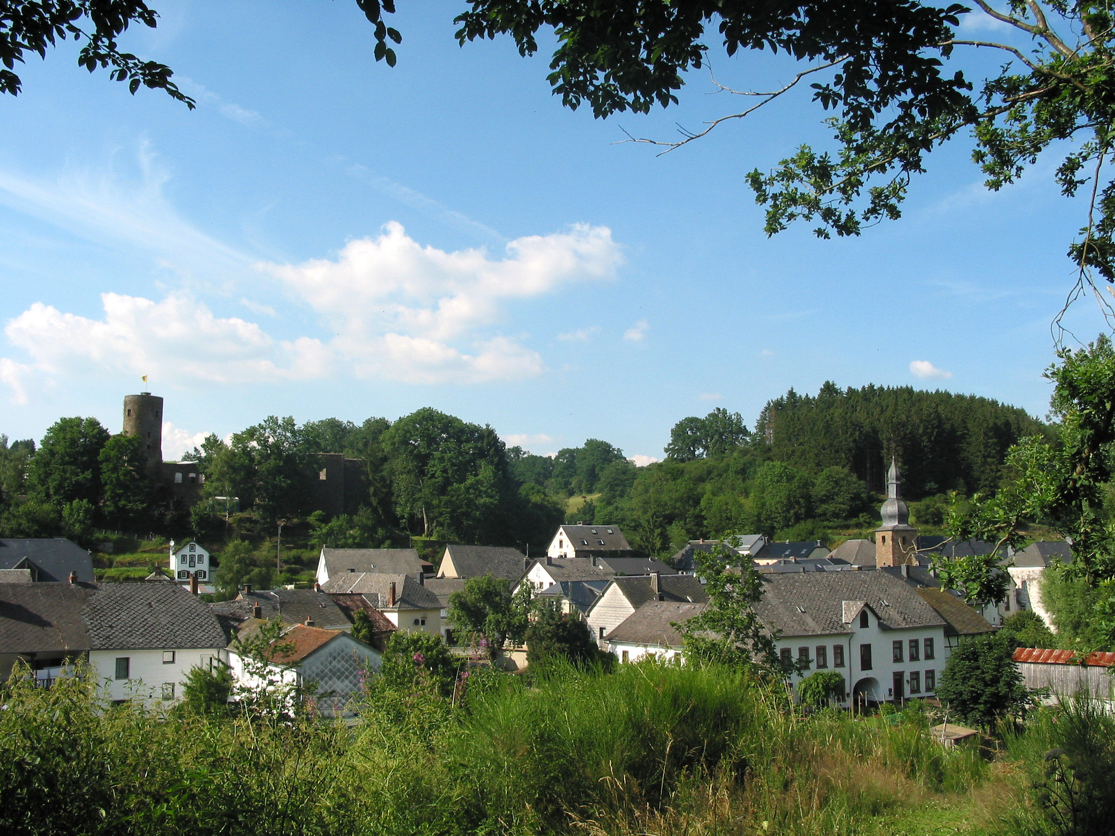 Burg-Reuland (Belgium), the village and the old fortified castle (XIII - XIVth centuries).